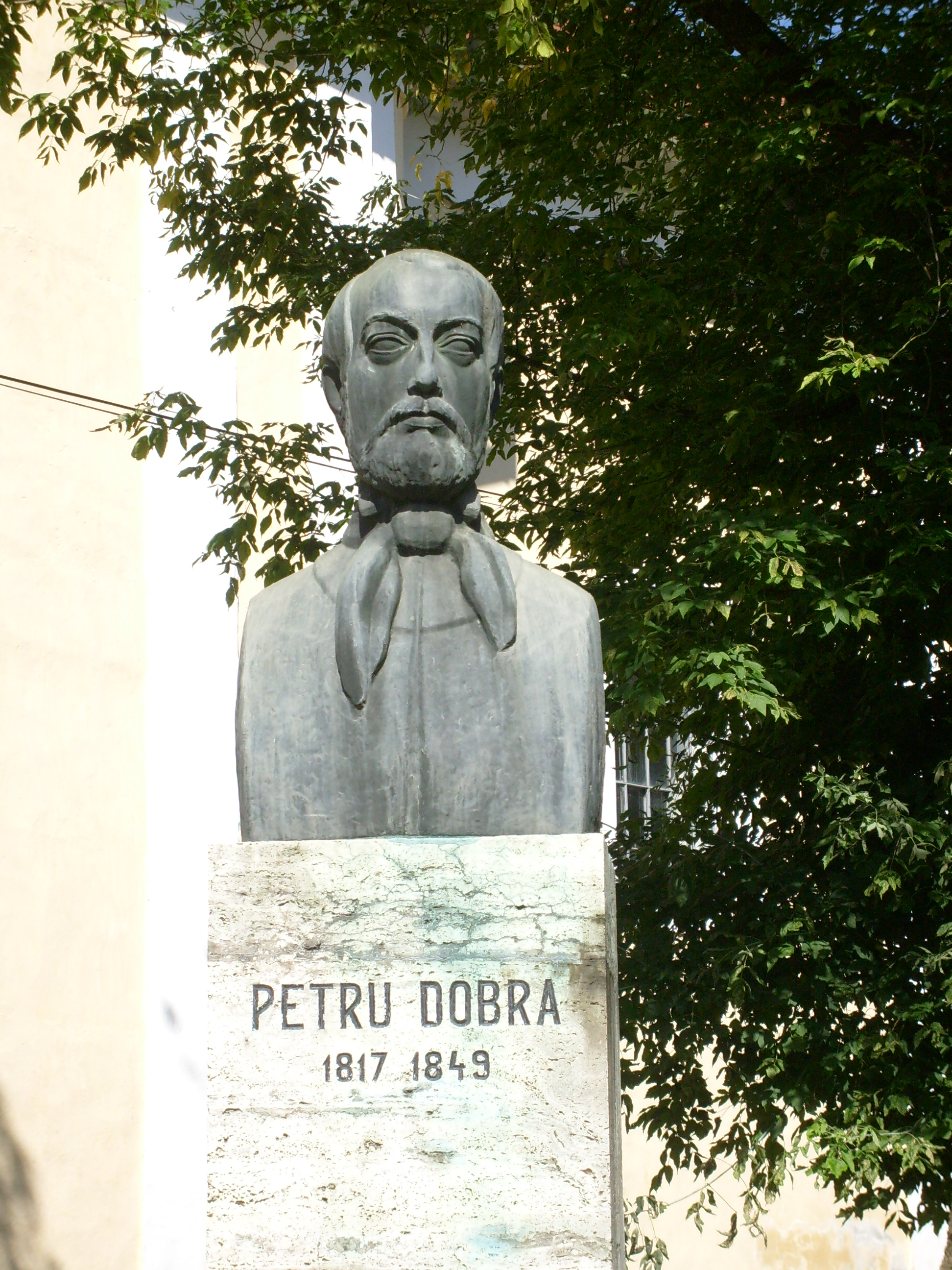 Garden of the Roman Catholic Church in Zlatna. Statue of Petru Dobra.